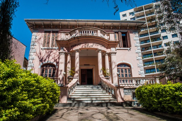 Forum da Cultura, casarão da década de 20 localizado no centro de Juiz de Fora.